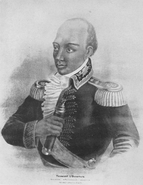 Engraved early portrait of Toussaint L'Ouverture, Haitian leader